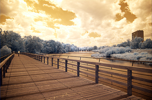 Example for an infrared photography with manual white balance